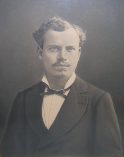 Daguerreotype of Parisian clockmaker Henry Eugène Adrien Farcot (February 20, 1830 - March 14, 1896). Photographer unknown. This image appears to have been taken before Farcot was 50, and hence the photographer has been dead more than 70 years.